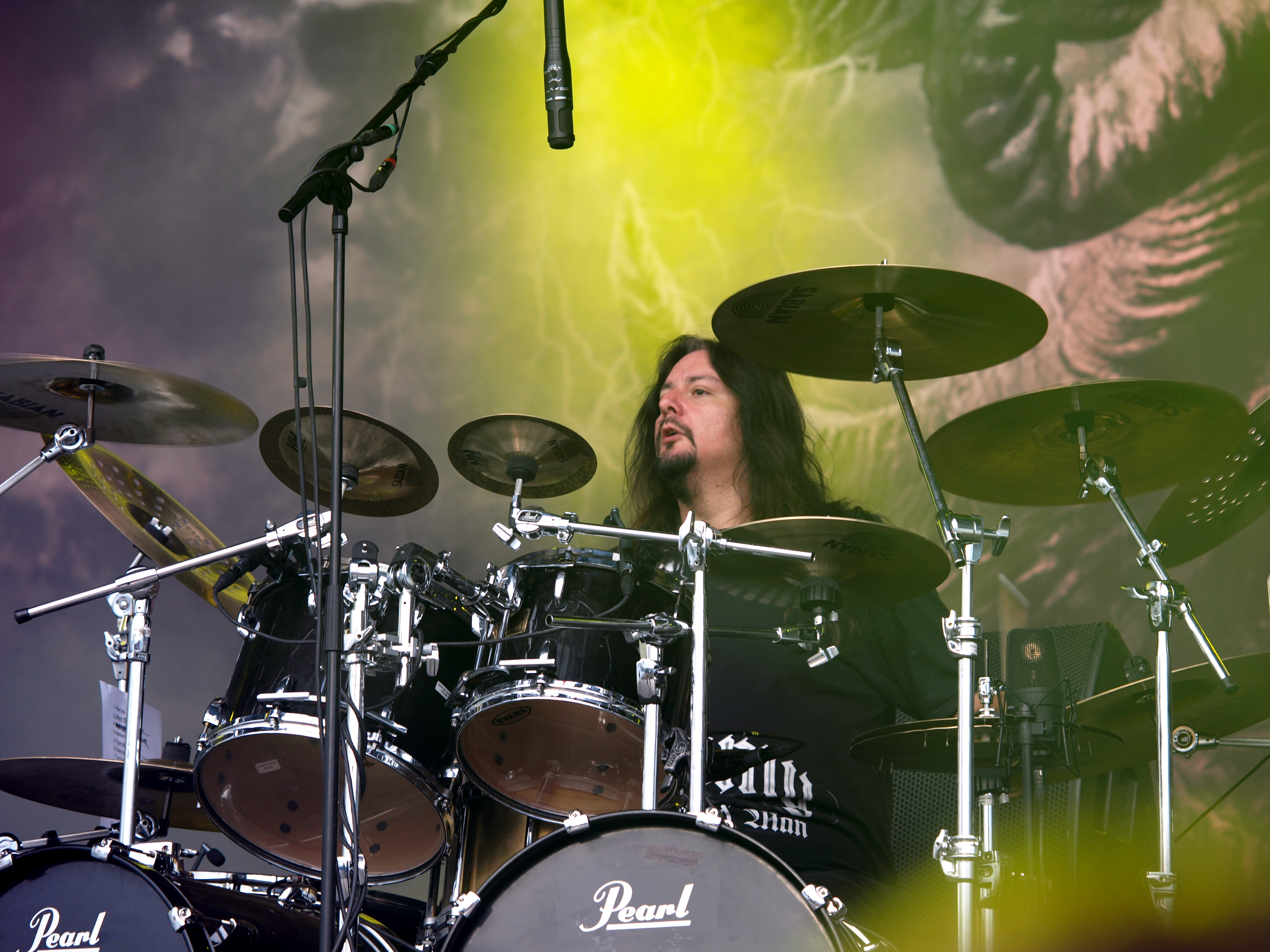 US-American thrash metal band Testament live at Tuska Open Air 2013